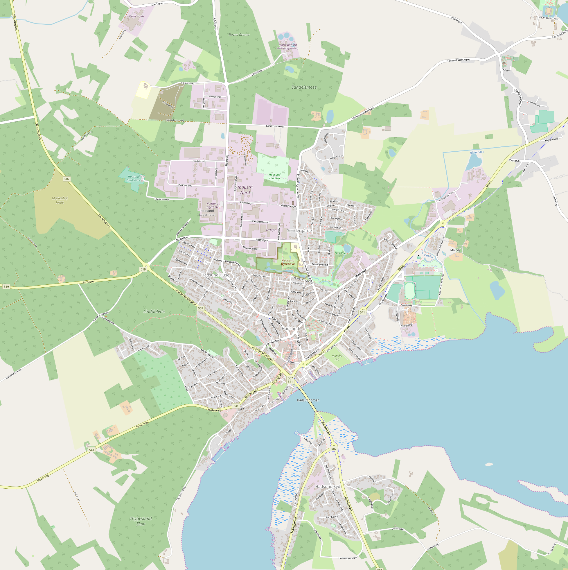 Geographic limits of the map: N: 56.7451 S: 56.7004 W: 10.0736 E: 10.1548